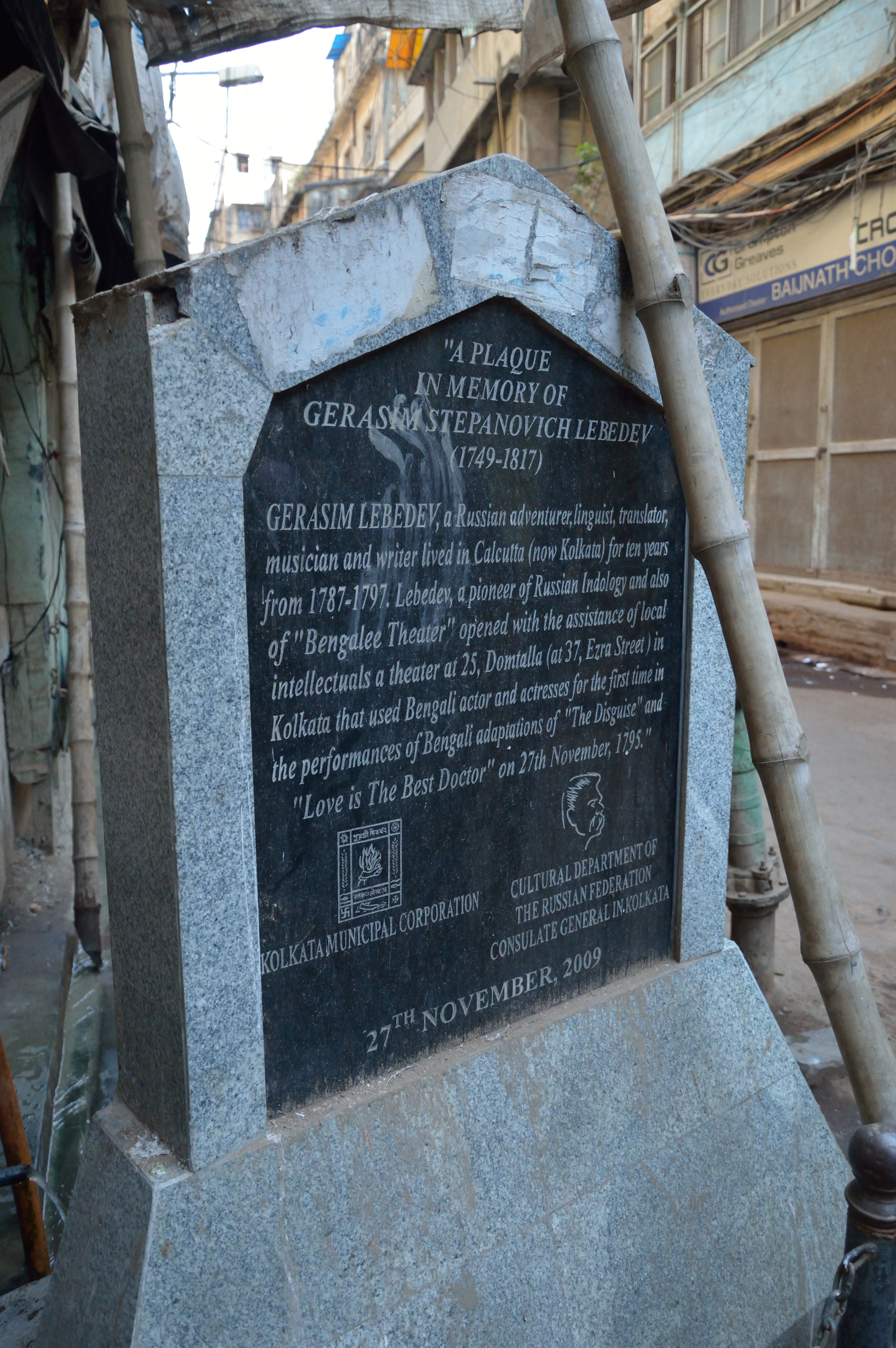 This photograph has been taken during the 'Wikipedia/Wikimedia Photowalk' event for the 'Wikipedia Takes Kolkata II' campaign on 3 March 2013, in Kolkata.